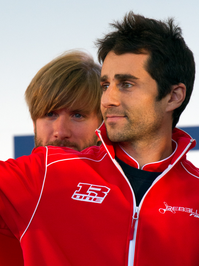 FIA World Endurance Championship 2014 Rd.5 6 Hours of Fuji: Nicolas Prost (Rebellion Racing) and Nick Heidfeld (Rebellion Racing), 1 month after the 2014 Beijing ePrix.